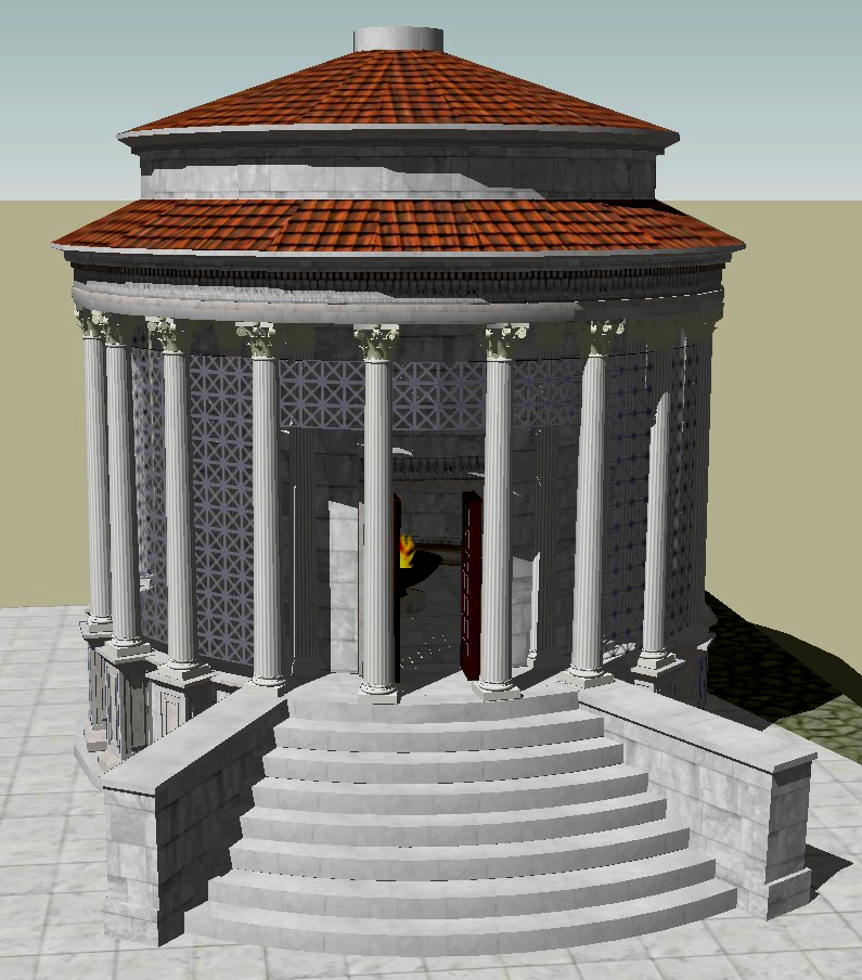 This is a derivative work of a 3D, Computer generated image of the Temple of Vesta by the model maker, Lasha Tskhondia - L.VII.C.[1]. Variations to the original model include shadows, adjusted for good lighting as well as the file being adjusted for color and contrast.